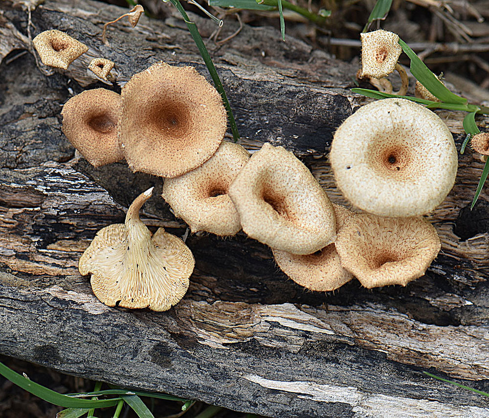 Lentinus swartzii reported from Panama and SE Brazil. speckled wood vase hotsprings Darien